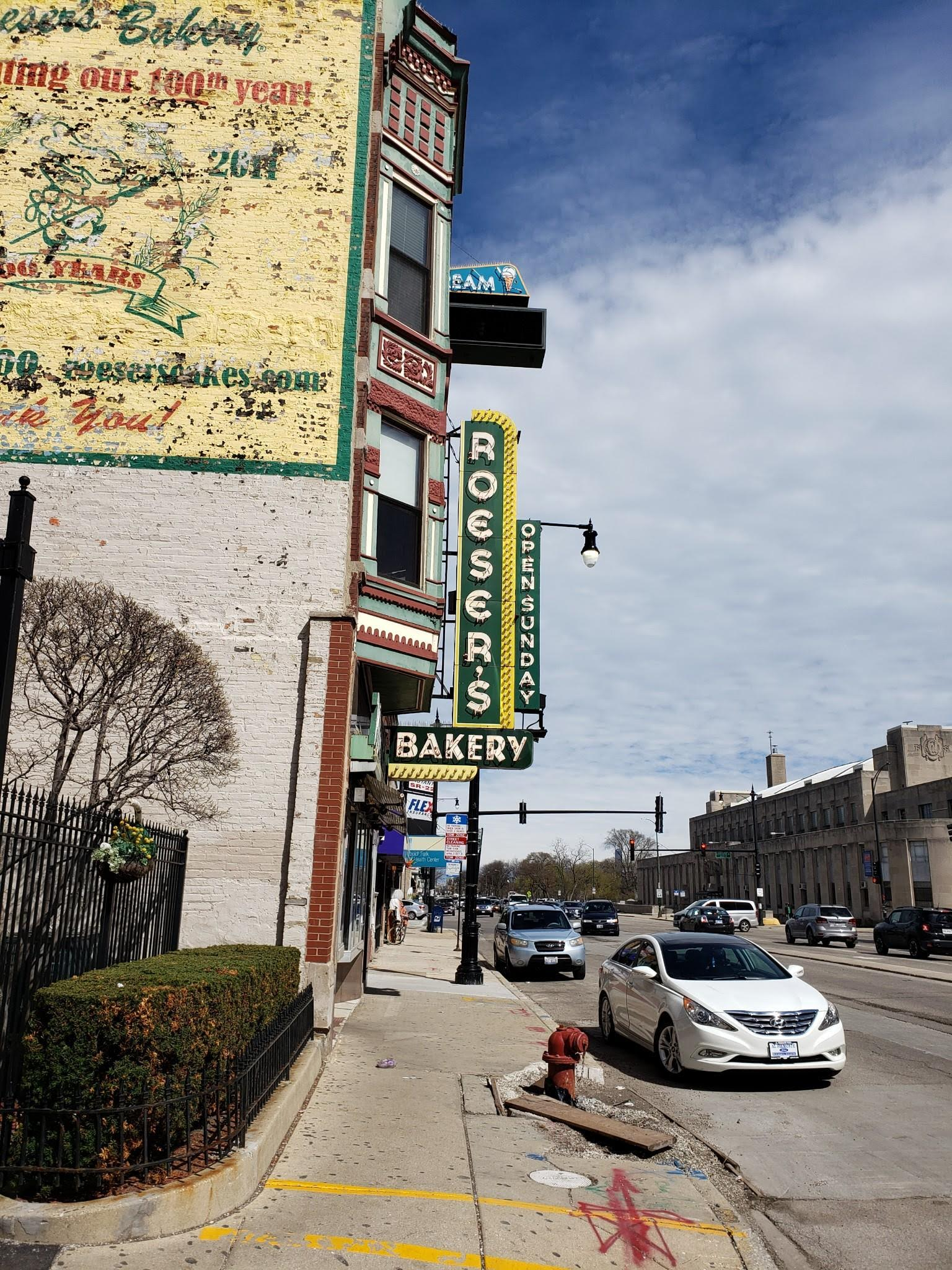 The neon sign that hangs outside of Roeser's Bakery that has existed since 1946.